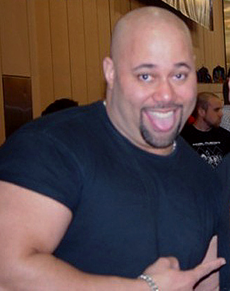 Scott at the Wizrdworld Comicon, Philadelphia, 2004